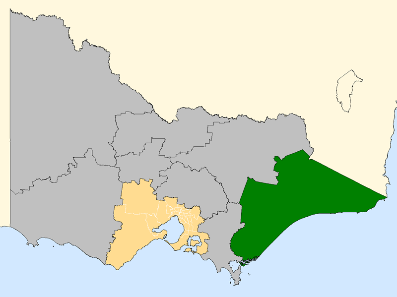 Division of Gippsland 2007, with surrounding divisions